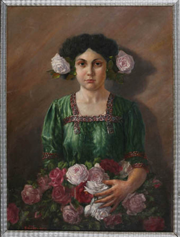 Ivan Entchev – Vidyu, Woman Picking Roses, 1908